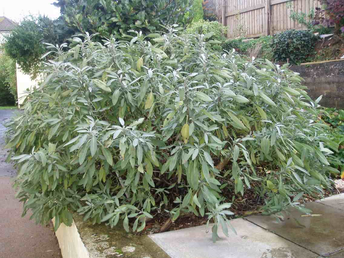 Salvia officinalis